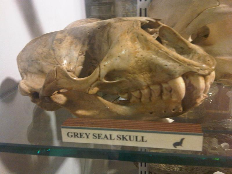 Grey seal (Halichoerus grypus) skull in Grant Museum of Zoology, London, England.